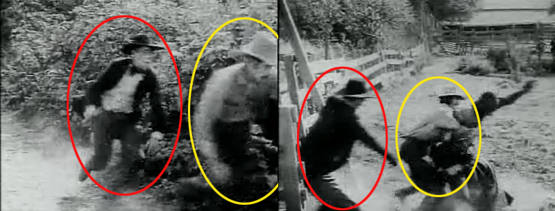 Scene from the movie Birth of a Nation. 1915.